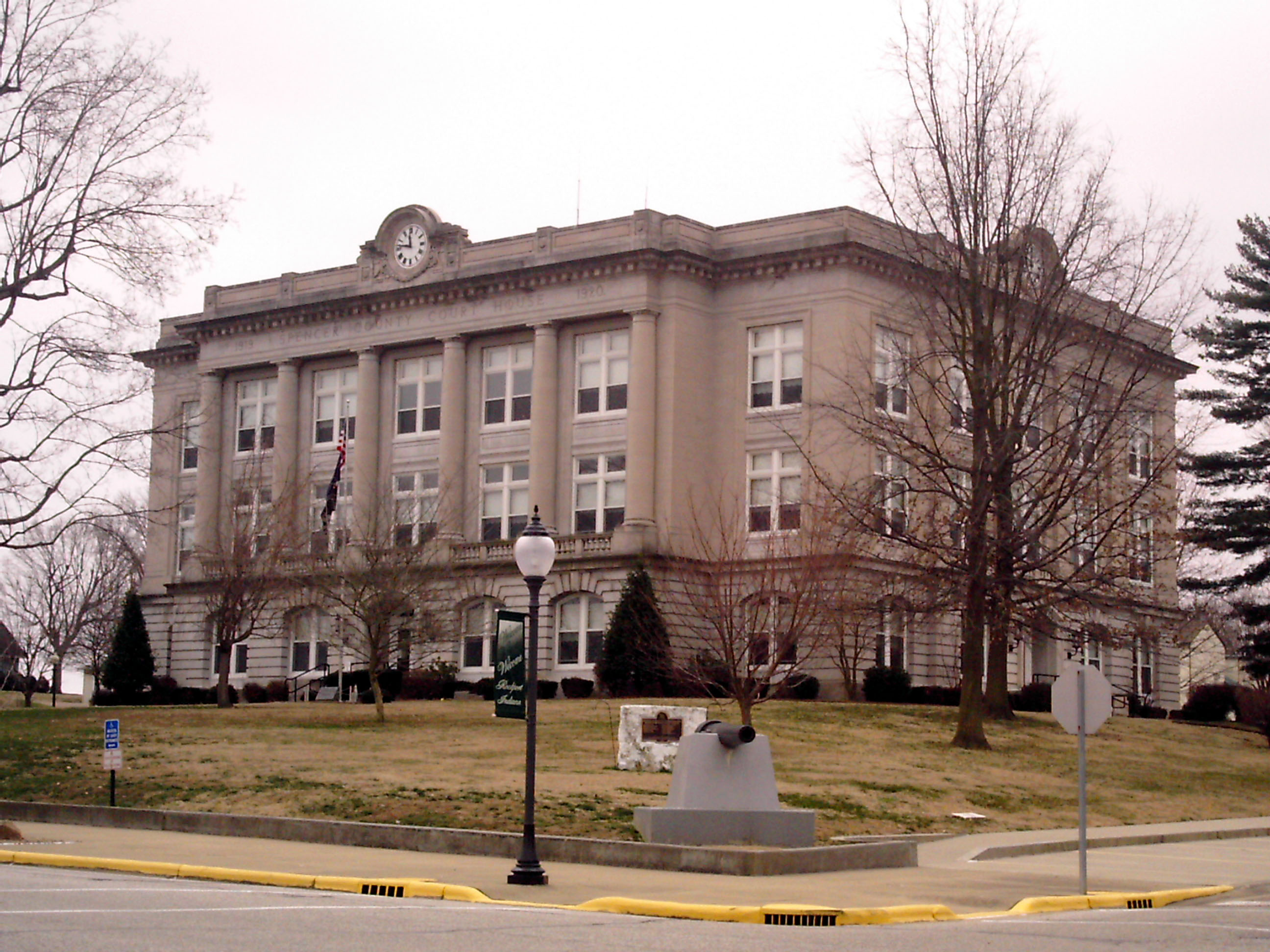 Spencer County Courthouse in Rockport, Indiana